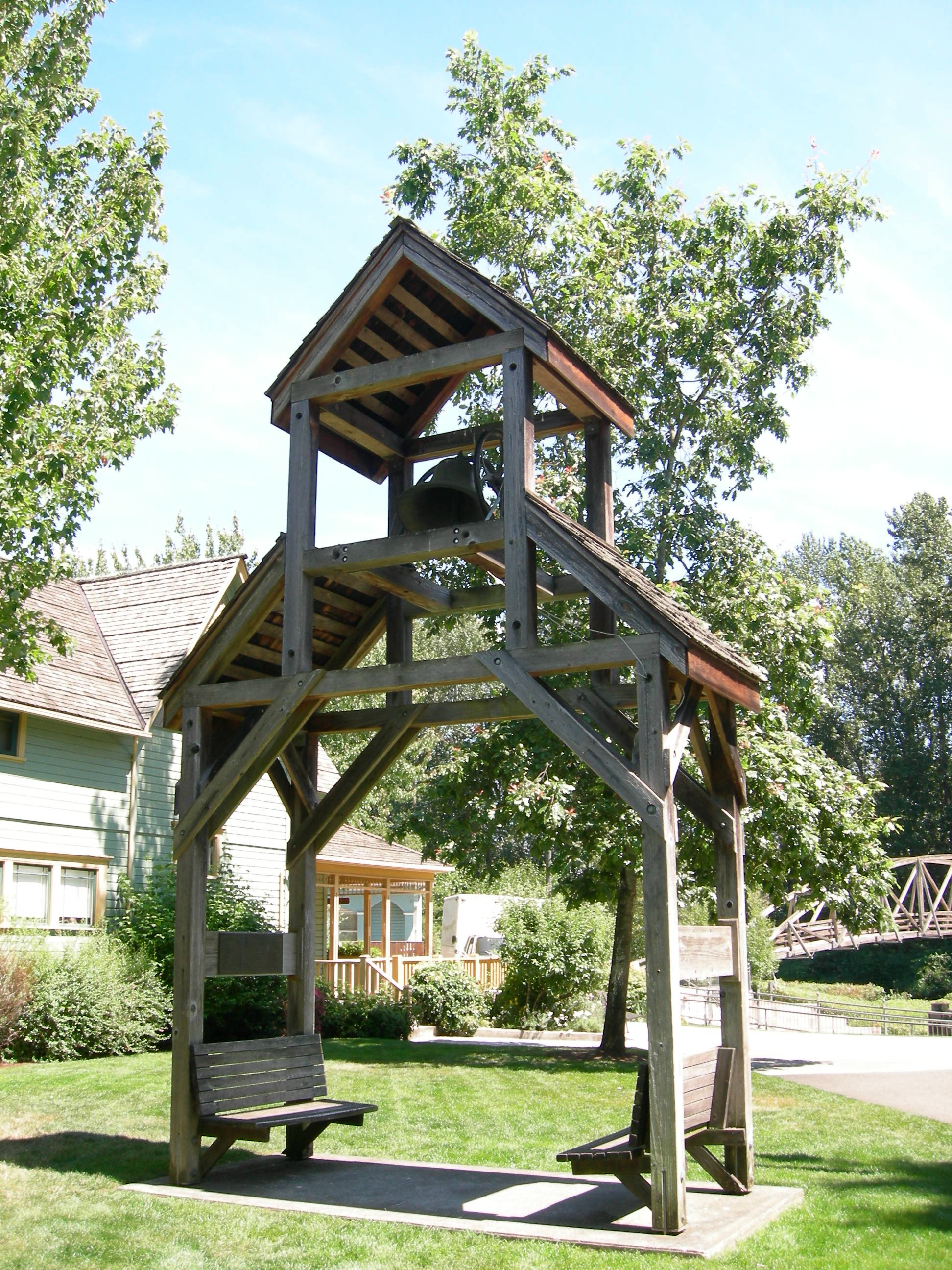 Small bell tower in Bothell Landing Park that now holds Bothell, Washington's oldest school bell.